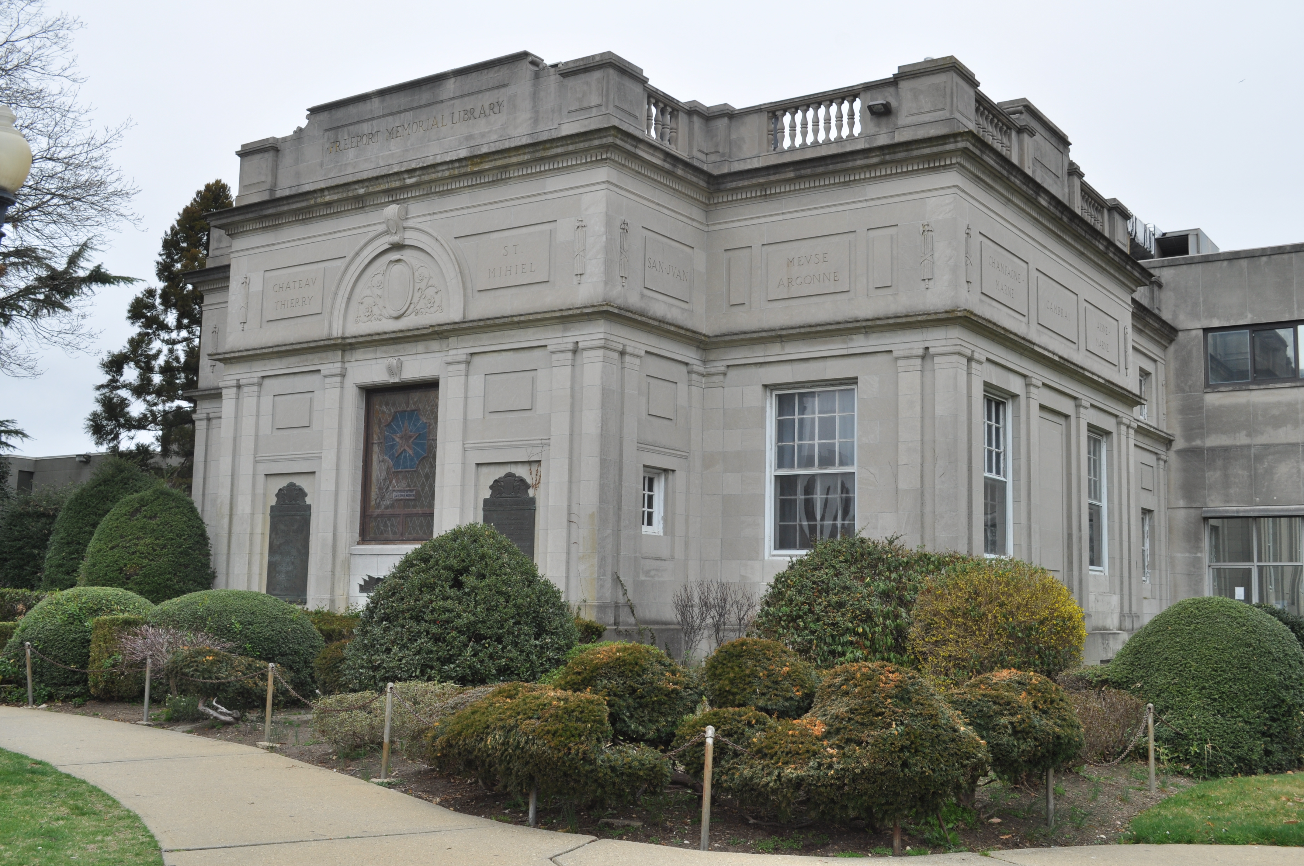 Freeport Memorial Library, Freeport, Long Island, New York.